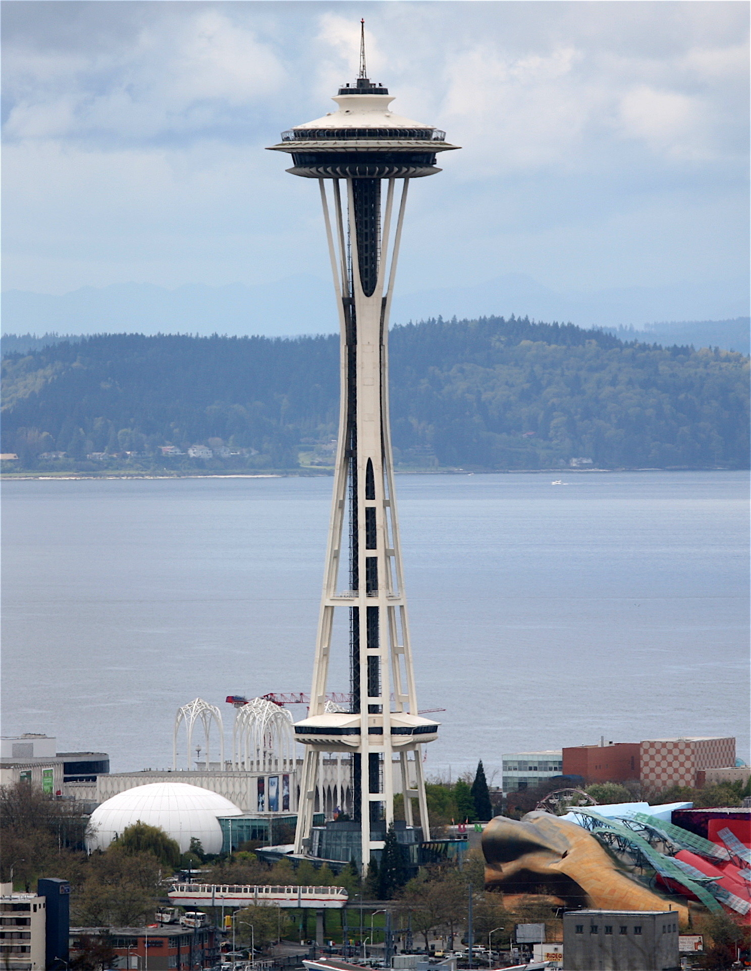 The Space Needle from Volunteer Park in Seattle. The EMP is at the bottom right and the Monorail is to the left.